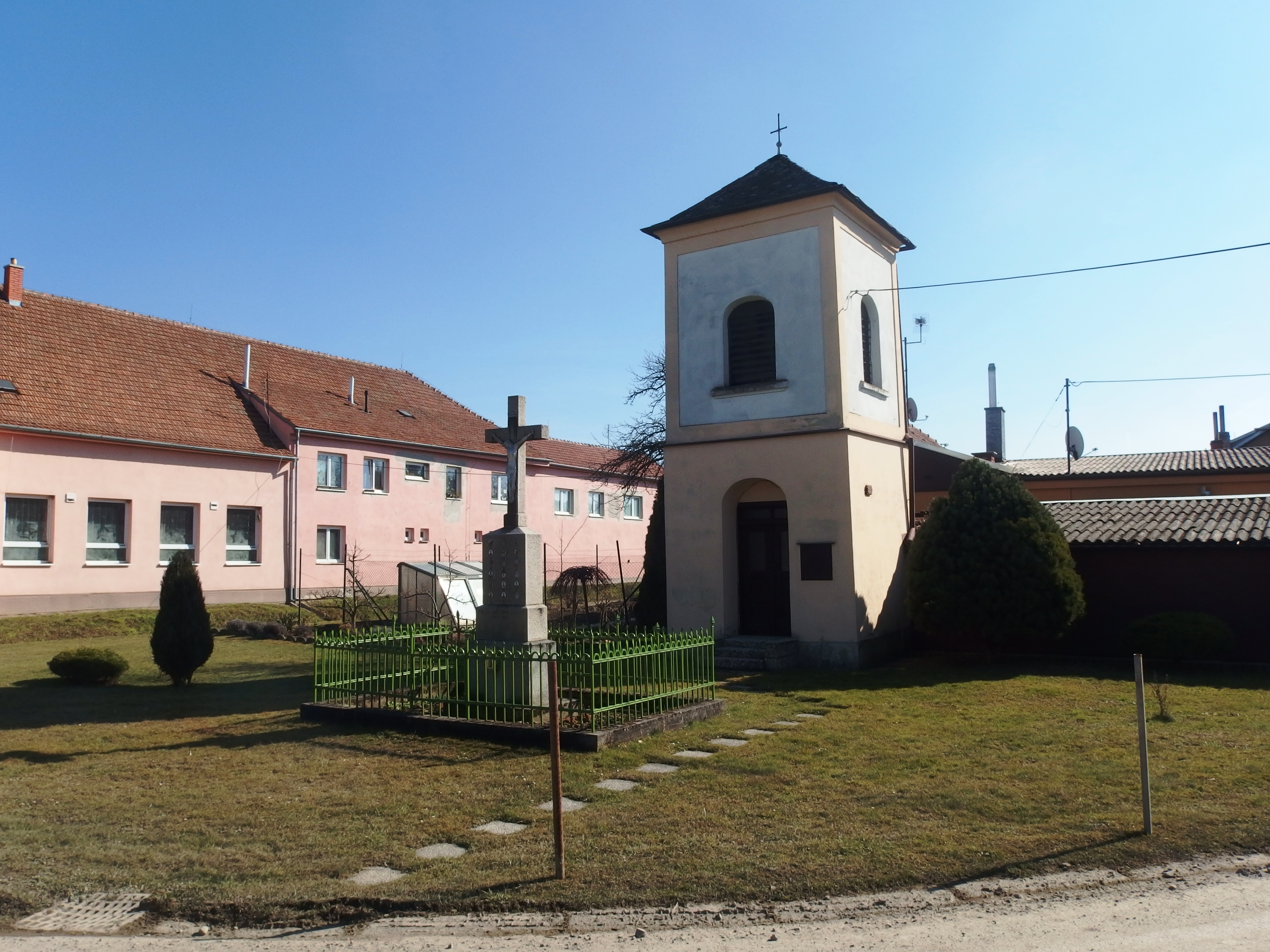 Mouřínov, okres Vyškov, Česká republika.